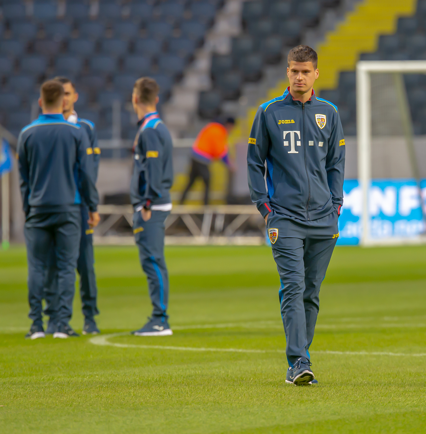 UEFA EURO qualifiers Sweden vs Romaina 20190323